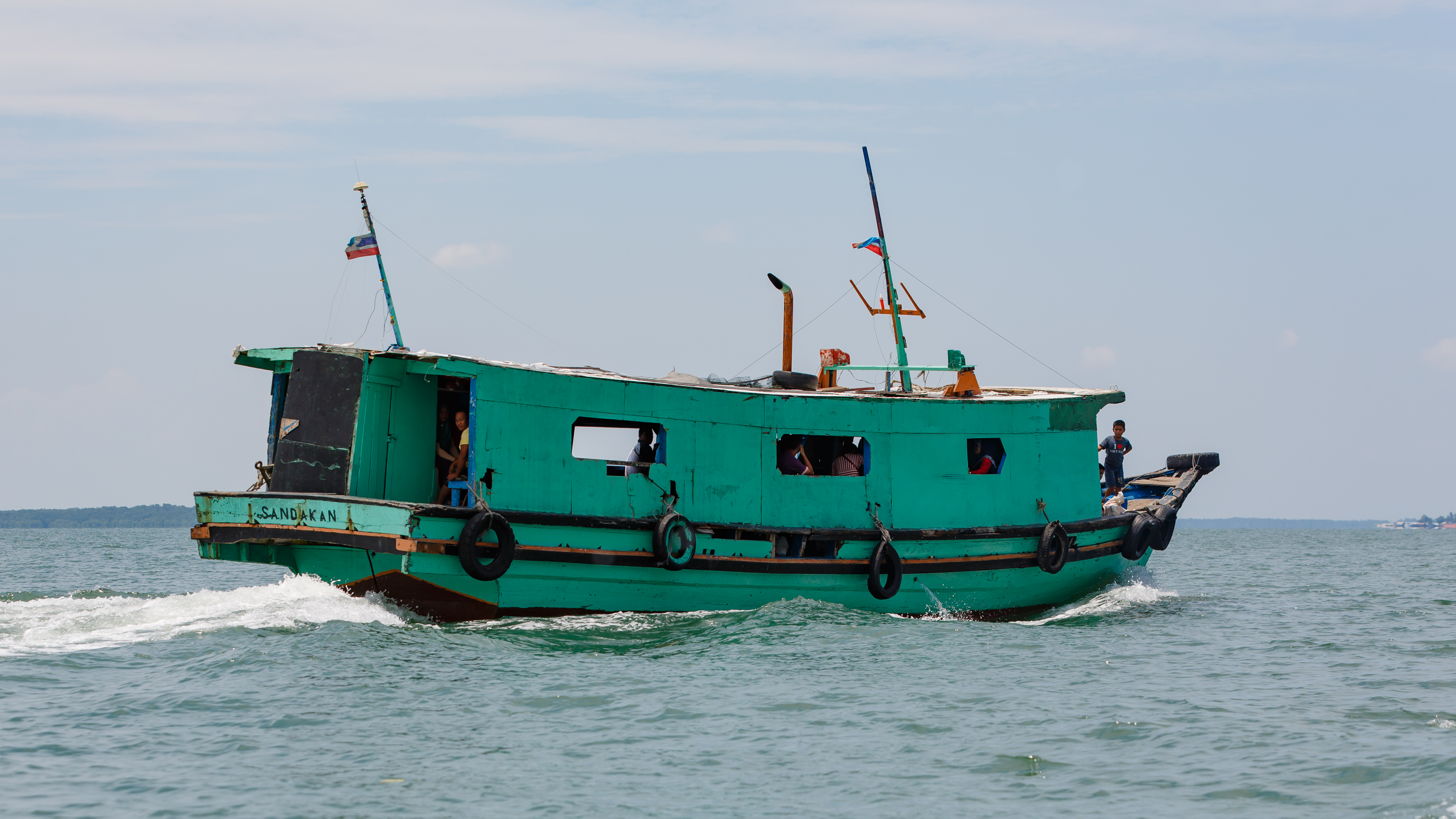 Sandakan, Sabah: The water taxi between Buli Sim-Sim Quarter and Berhala Island